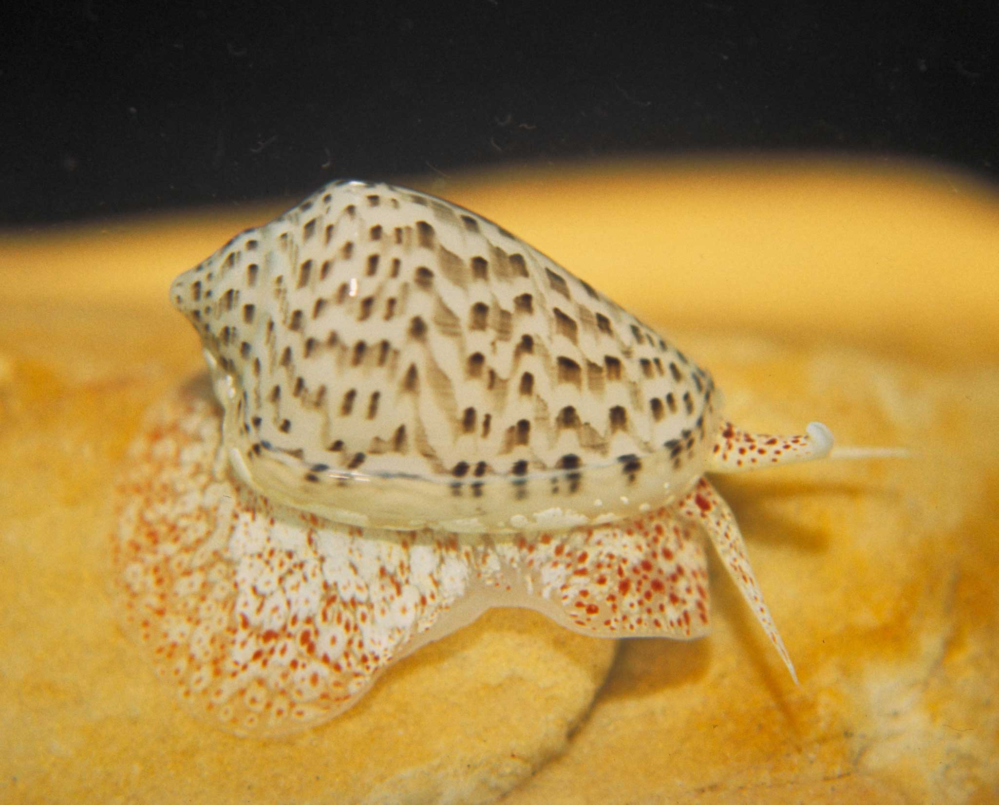 Species: Marginella mosaica Sowerby, 1846. East London, South Africa